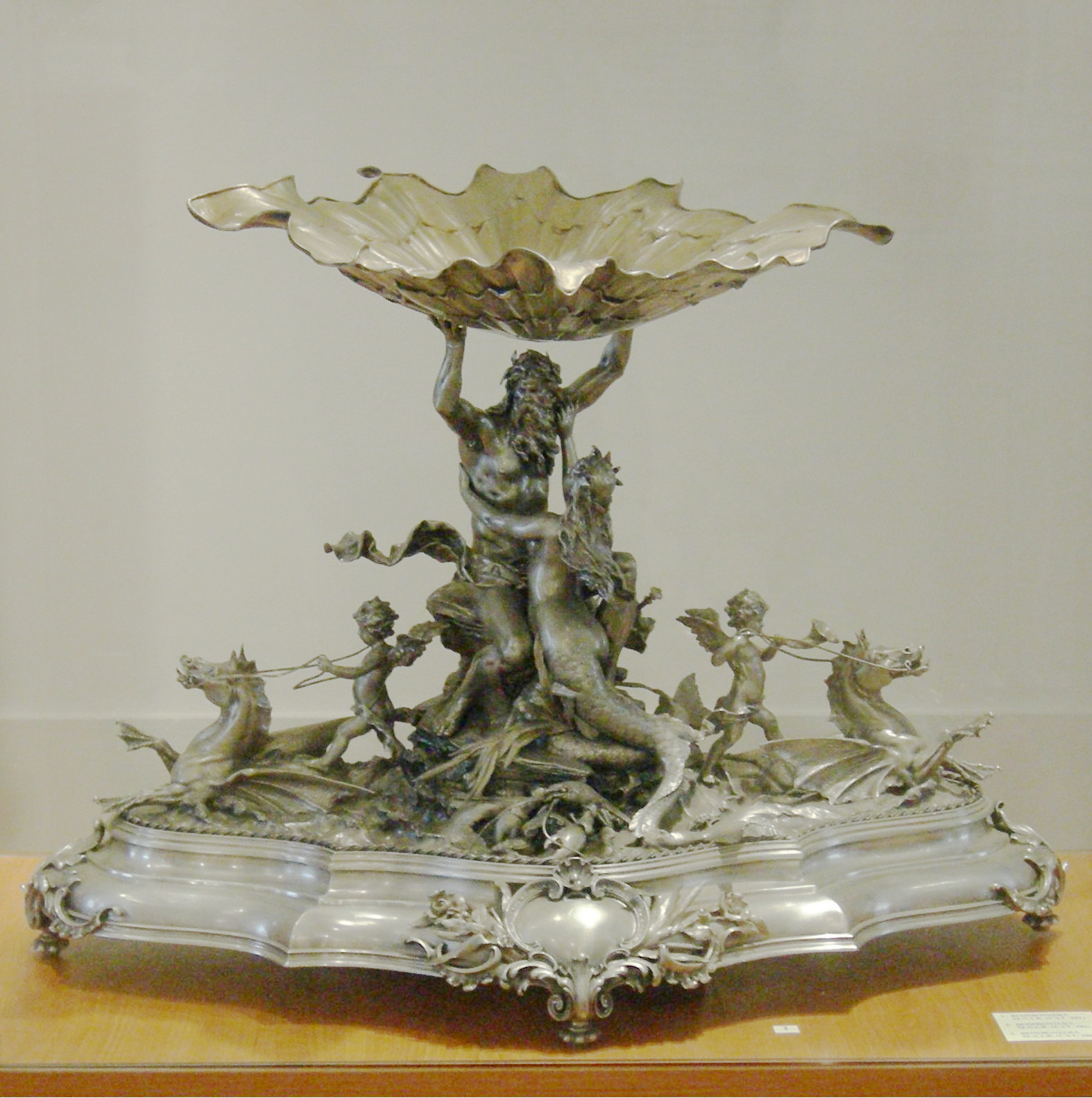 A bonbonerie that once belonged to King Carol I of Romania. Museum of Romanian History in Bucharest, Romania. 45 × 64 × 40 cm, 8650 g